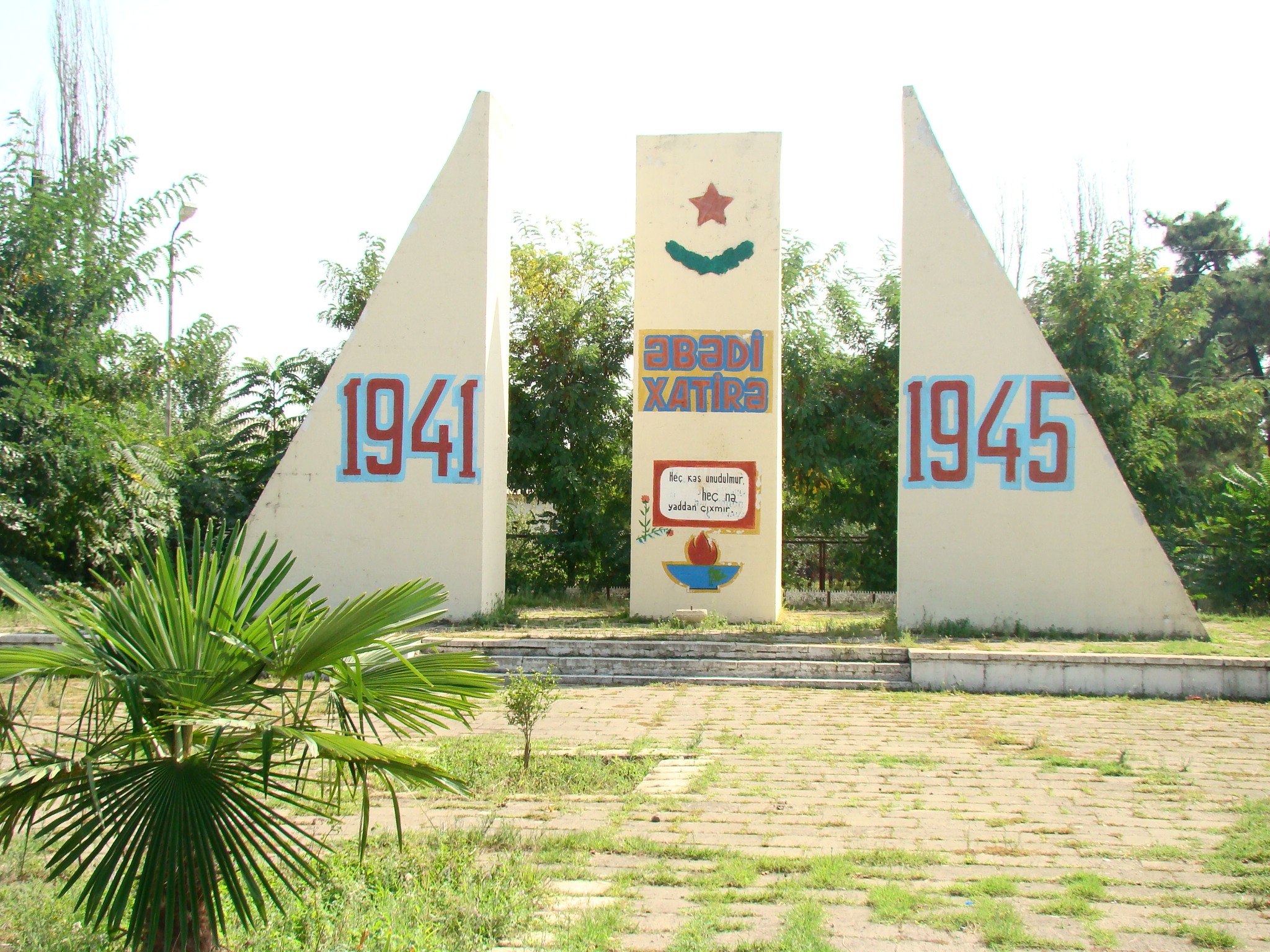 Monument to honor the dead in the Great Patriotic War in Boradigah (Azerbaijan)